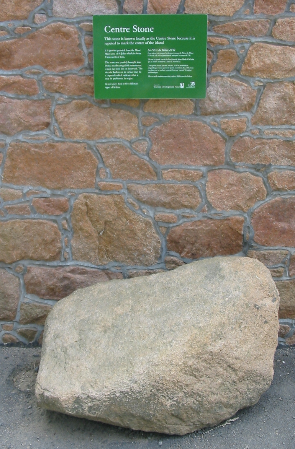 Centre Stone, traditionally considered to mark the geographical centre of Jersey Photo taken by Man vyi with Canon PowerShot A40 on 11/6/2005